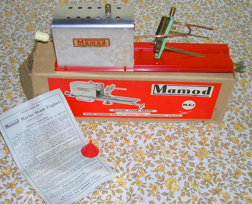 A mint and boxed Mamod ME1 dating from 1958. Shown with its filler funnel and instructions next to its box.